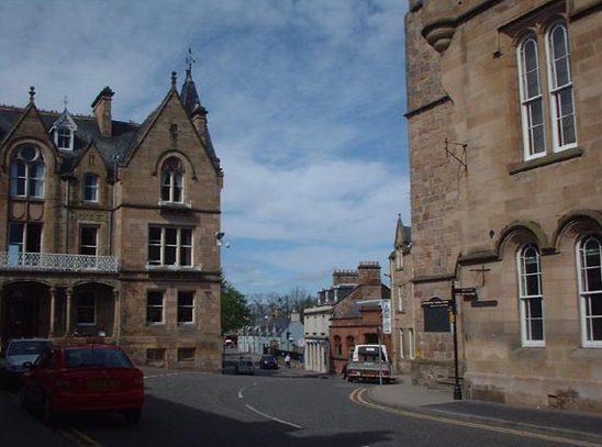 Tain town centre. Tain has some lovely old buildings and churches. This is right on the edge of the square.